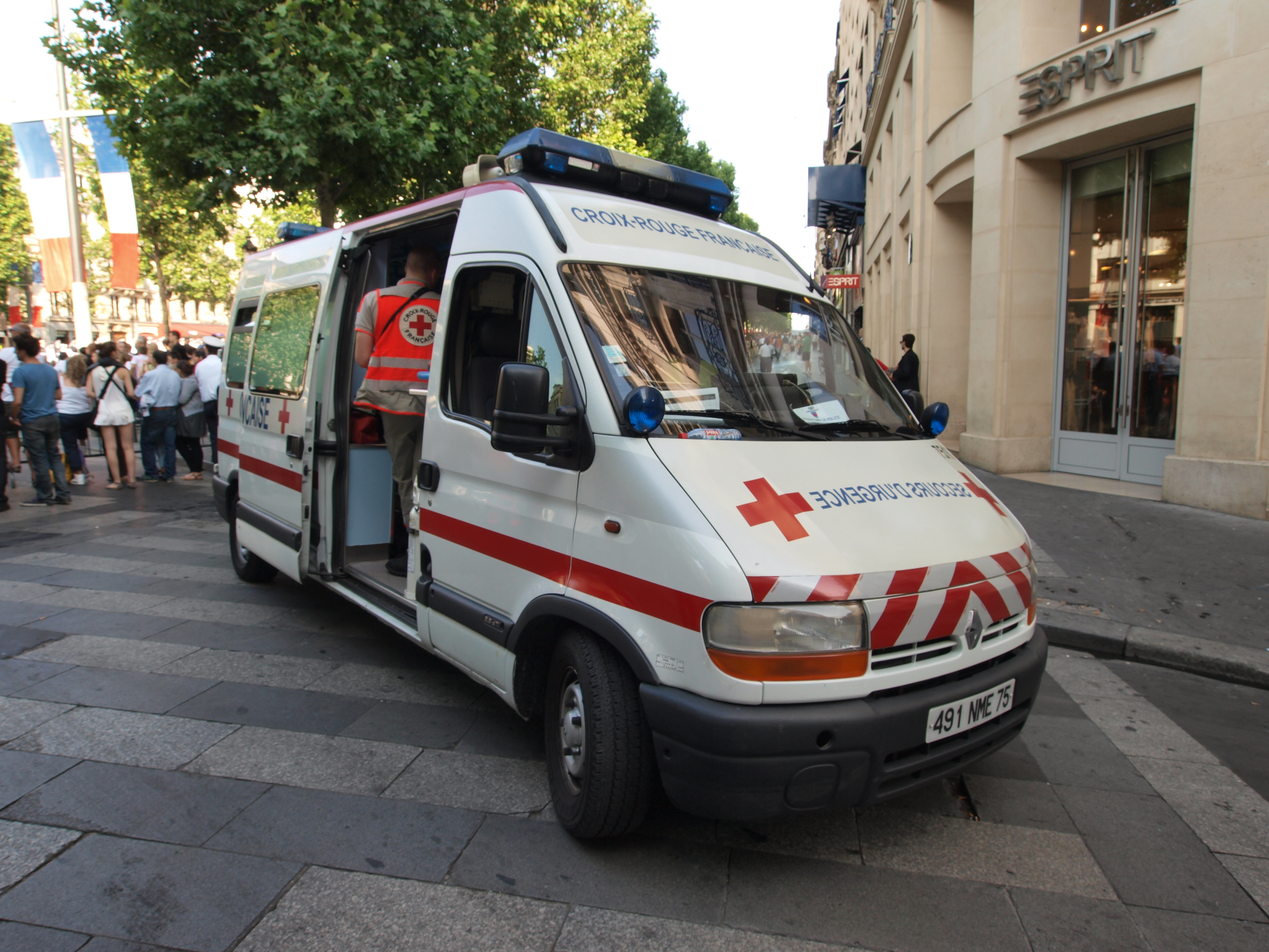 Photographed in France.